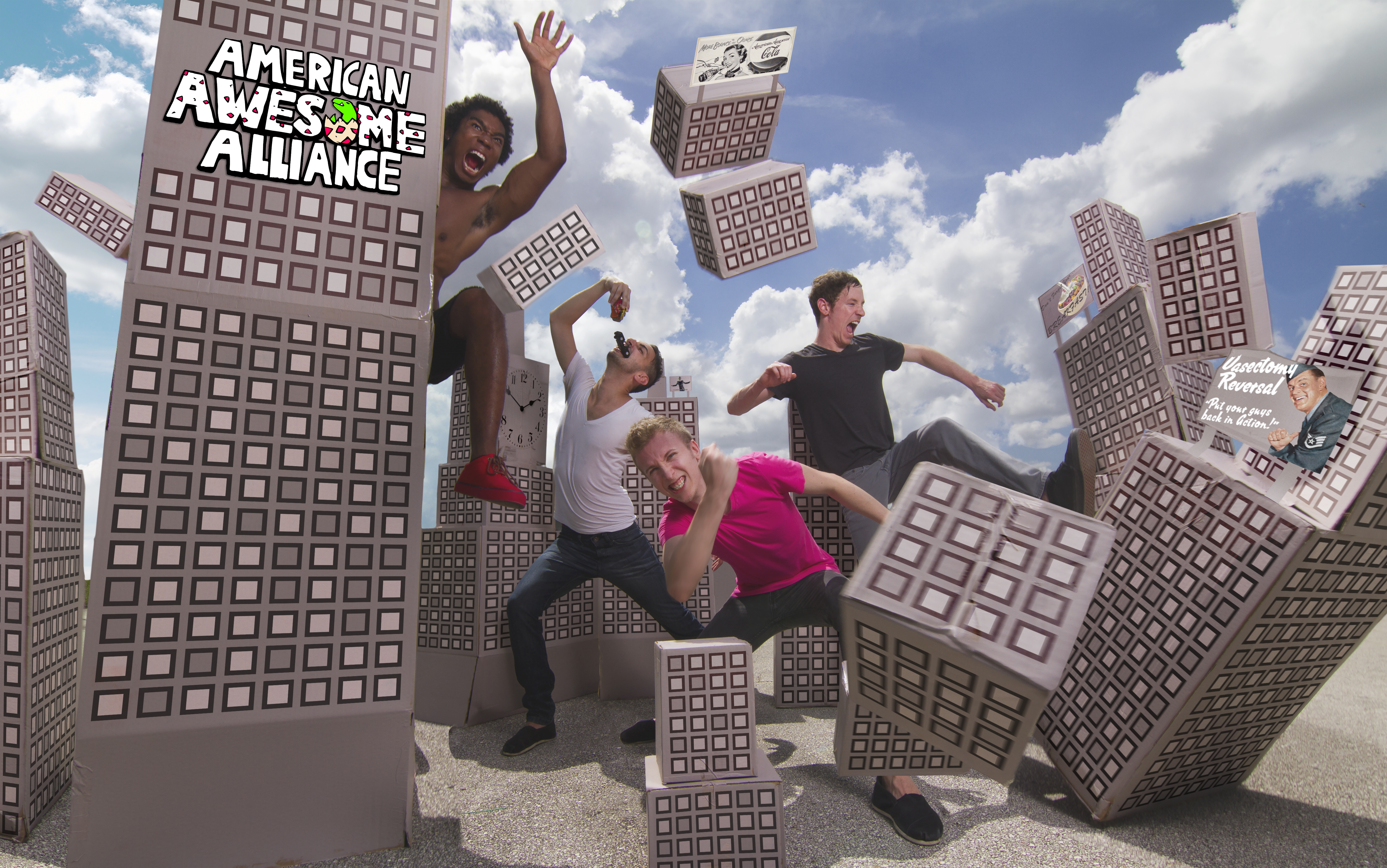 American Awesome Alliance rampages through the city! Photo by JoeDesantis of Megabyte.